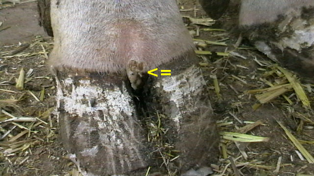 Interdigital hyperplasia